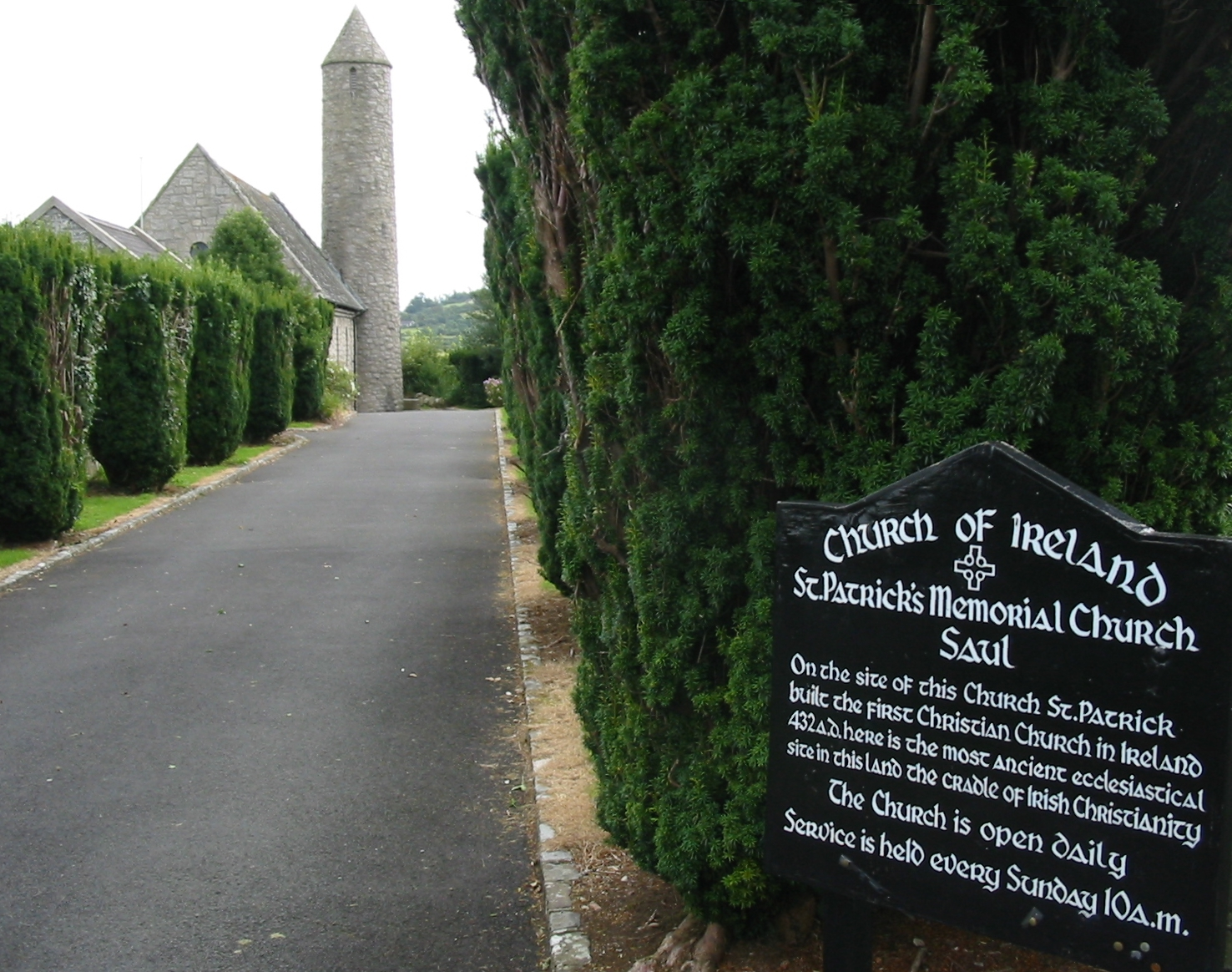 Church and Irish round tower on site of Saint Patrick's first church in Ireland at Saul, County Down